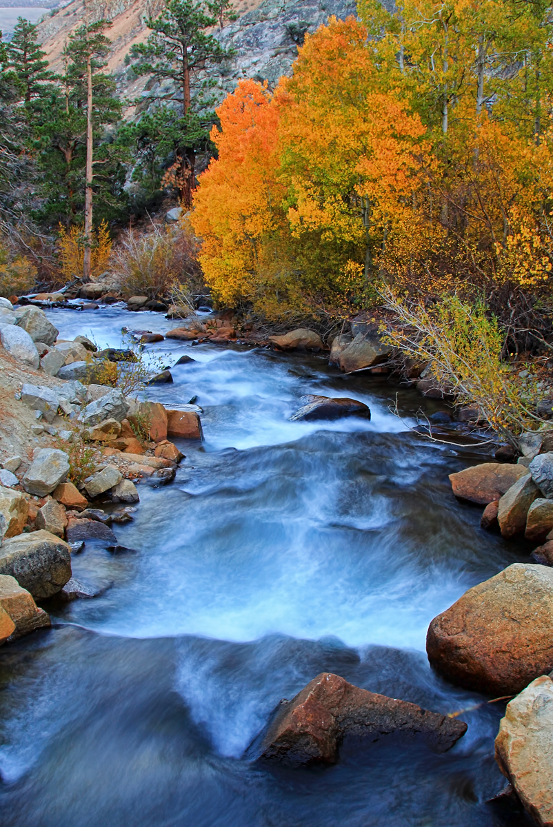 North Fork Bishop Creek — in the autumn, near Aspendell in Inyo County.